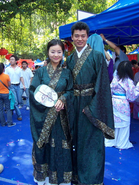 Two Hanfu Promoter - Taken during Chinese cultural Festival in Guangzhou [广汉会参加暨大中华文化节活动]